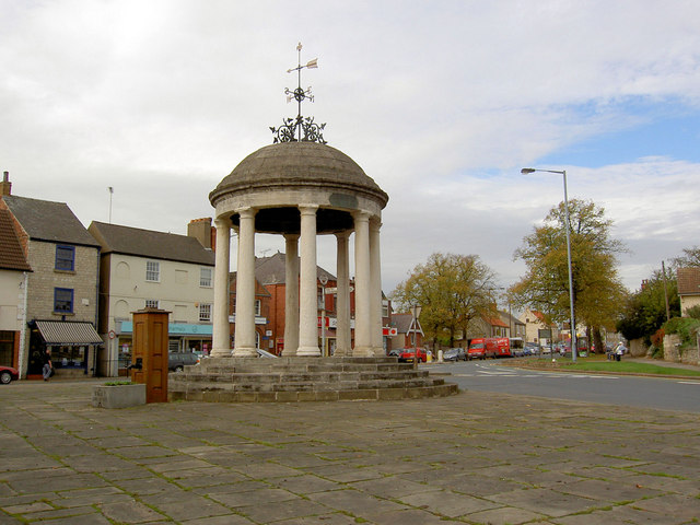 The Market Cross Tickhill Known locally as the buttercross.